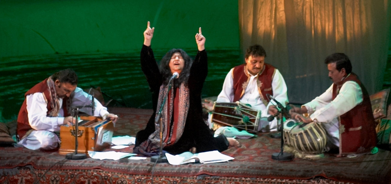 Pakistani singer Abida Parveen in Oslo, September 2007